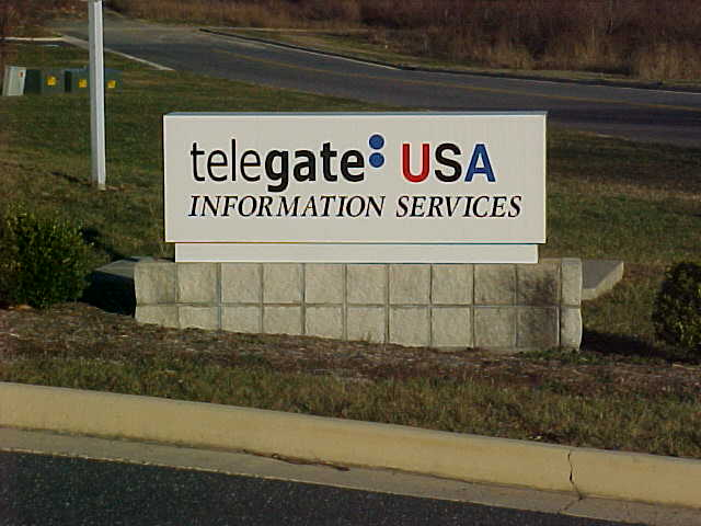 CFW Information Services sign after conversion to Telegate USA brand.